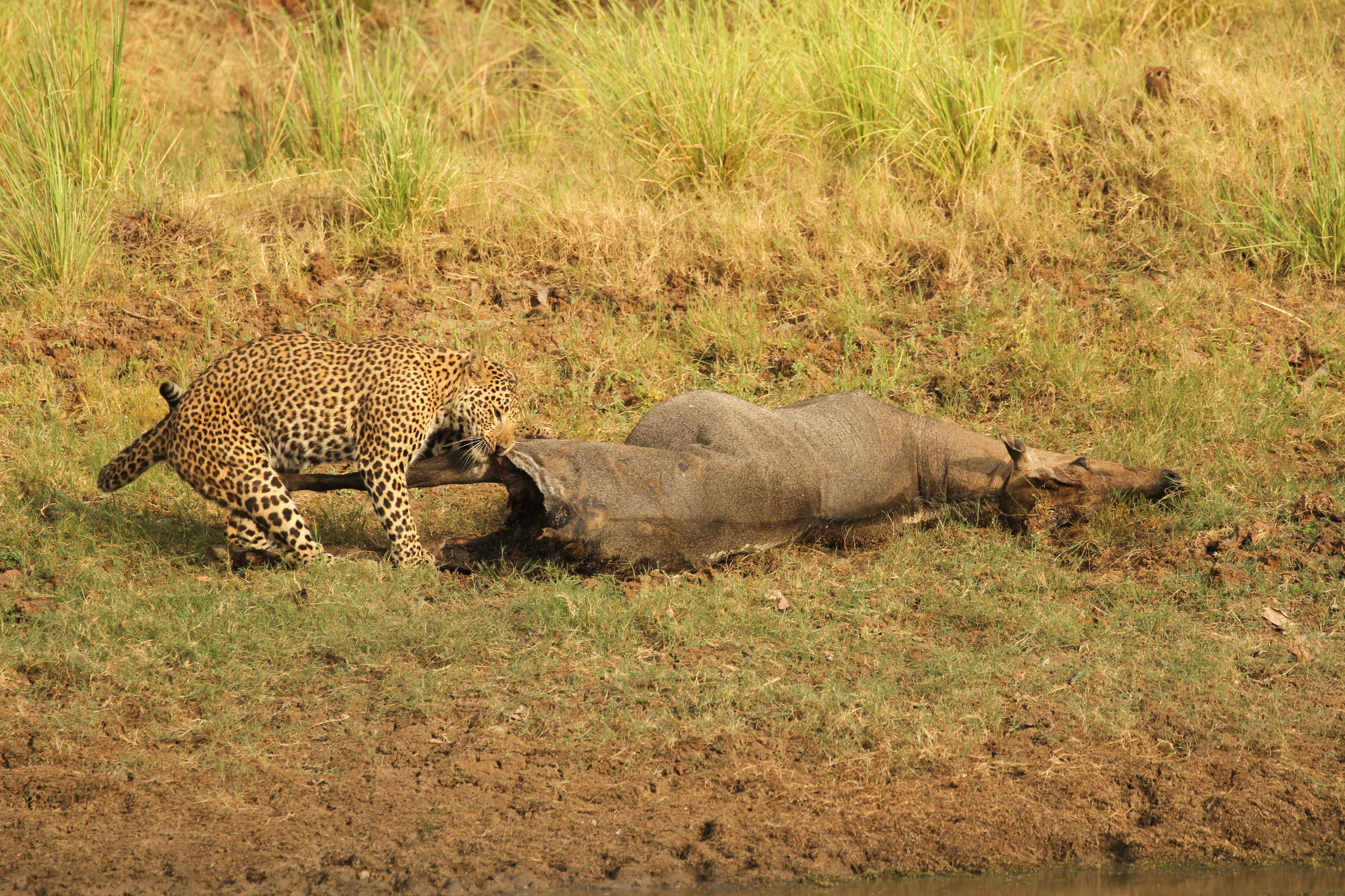 leopards from Central India